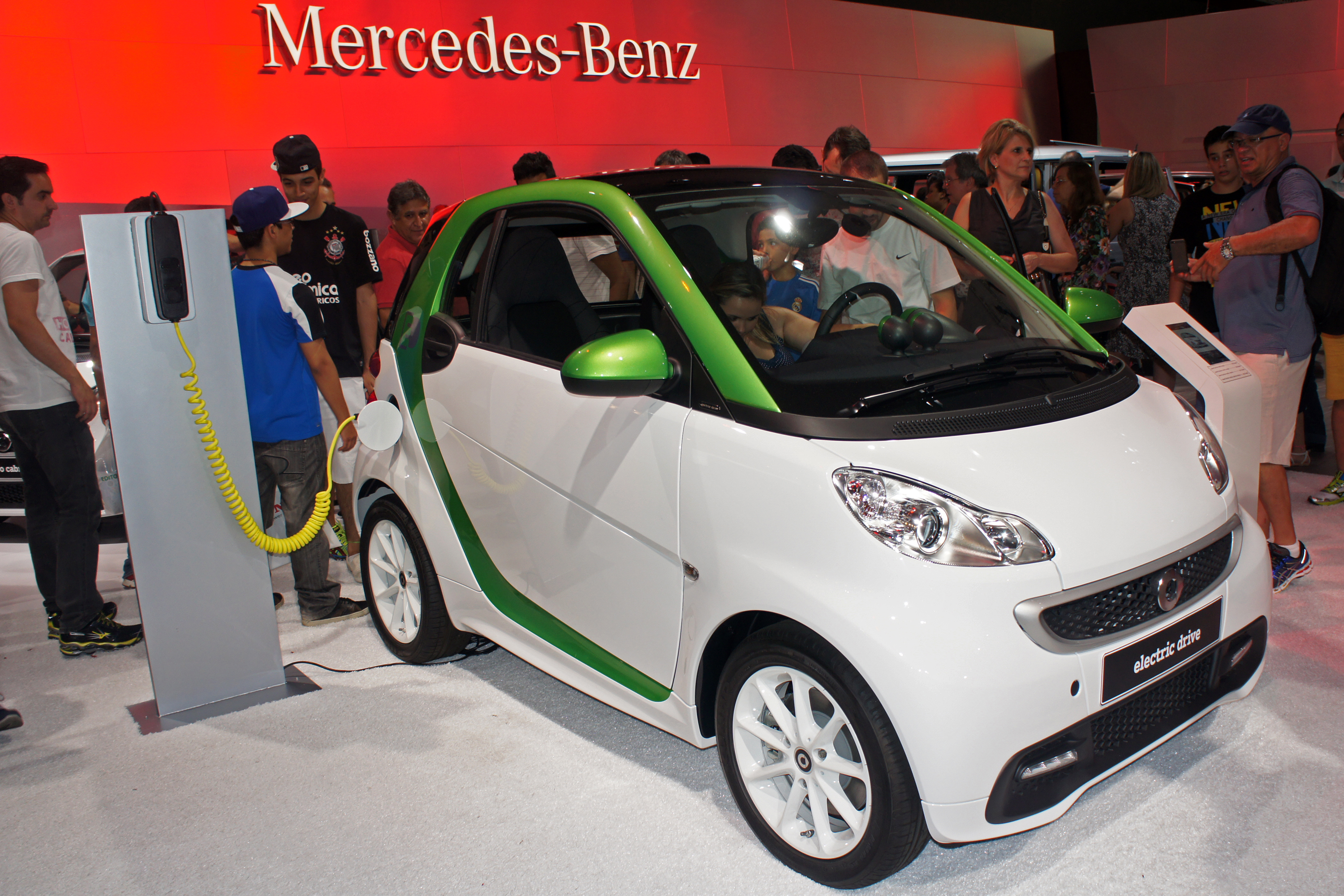 Smart electric drive exhibited at the 2014 Salão Internacional do Automóvel São Paulo, Brazil